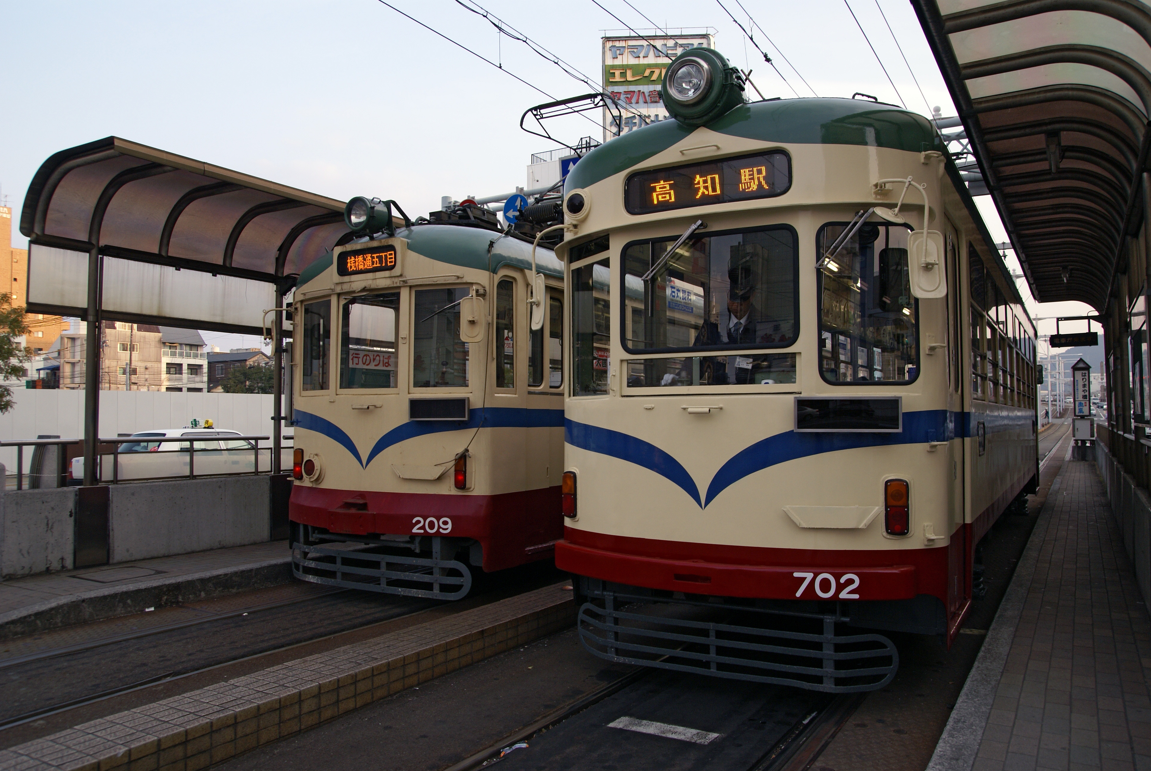 Harimayabashi Station in Kochi, Kochi prefecture, Japan